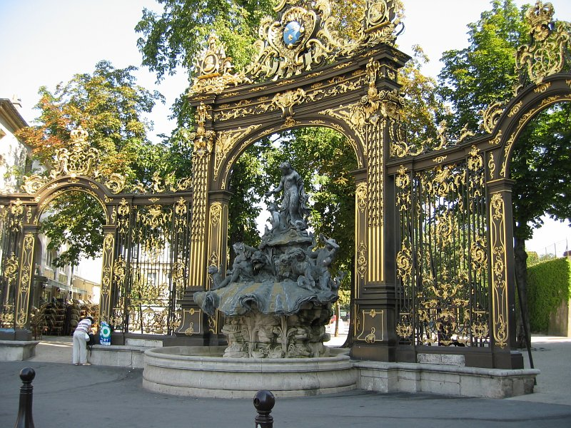 Fountain of Amphitrite at Place Stanislas in Nancy, France